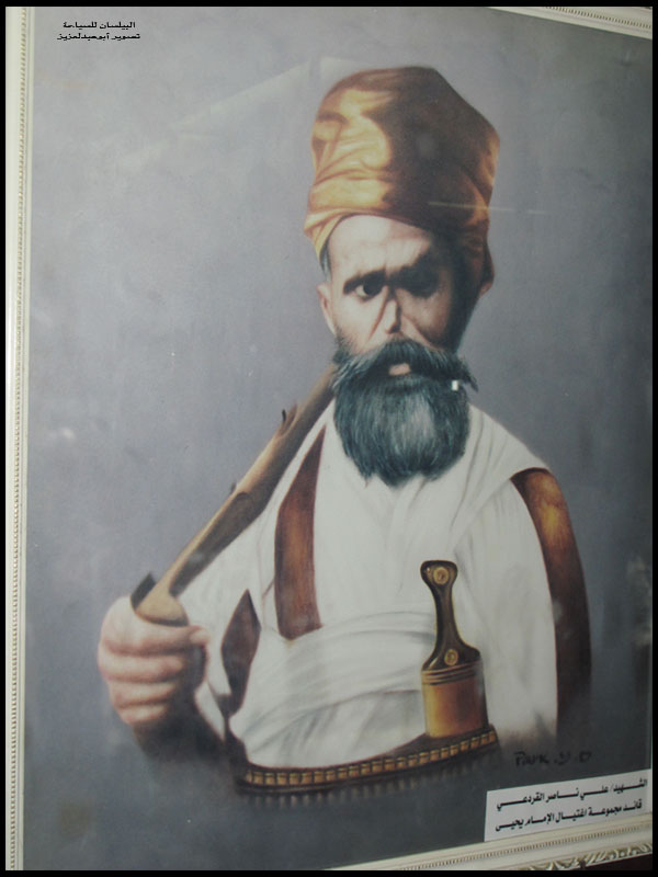 Ali Nasser Al-Qarda3i